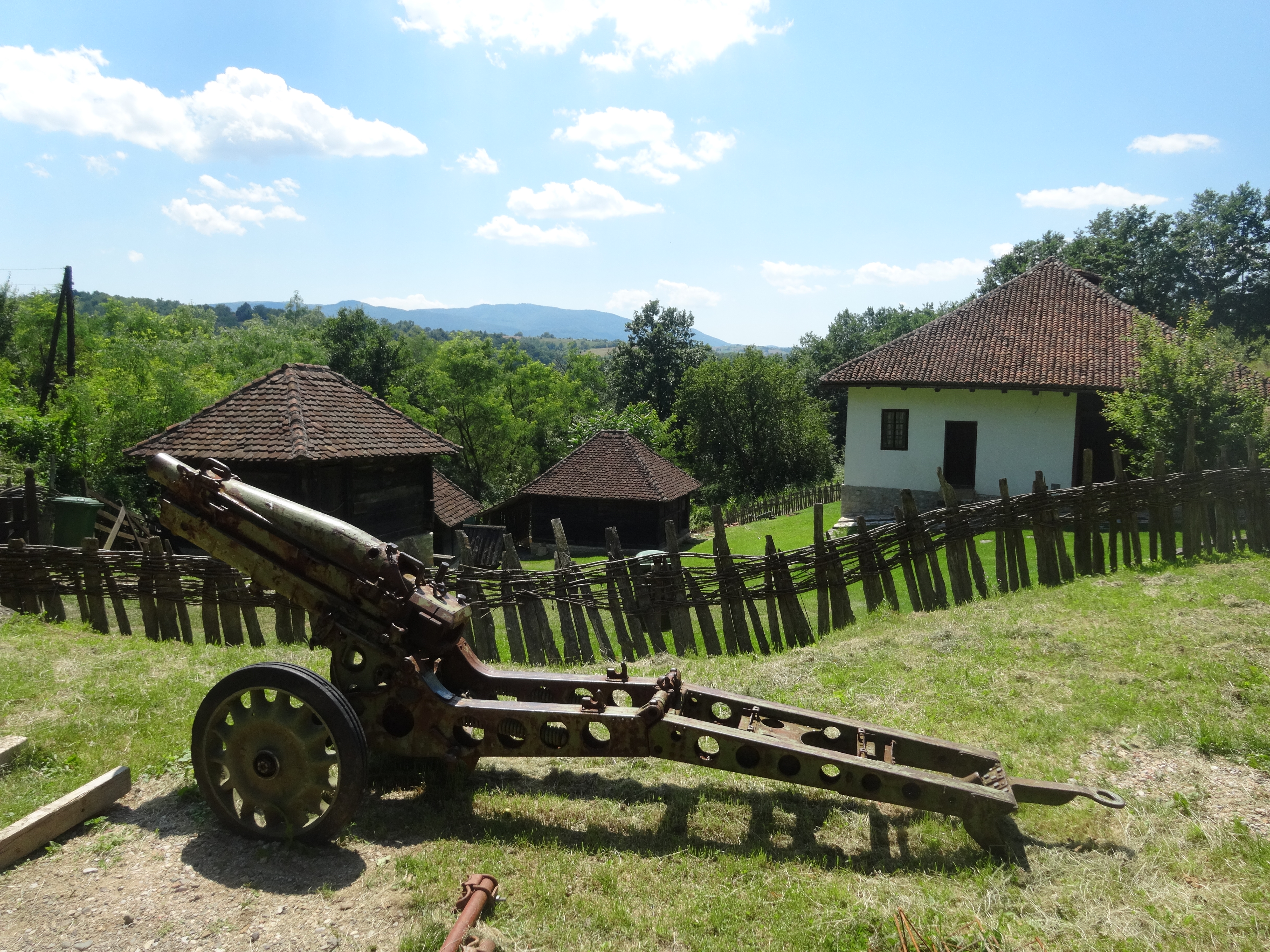 Struganik, Birth house of Živojin Mišić